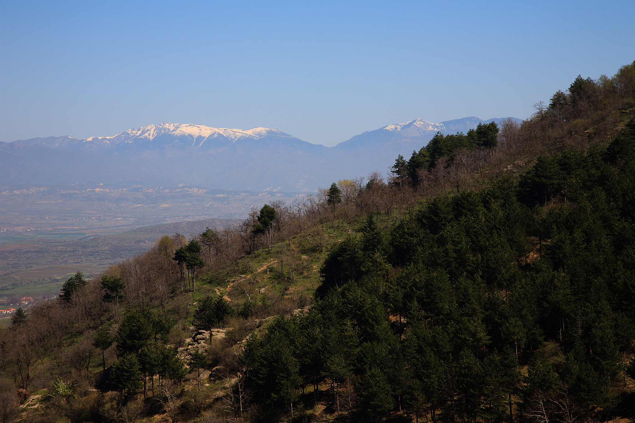 The Papazchair pass between Mid and Soutern Pirin mountain